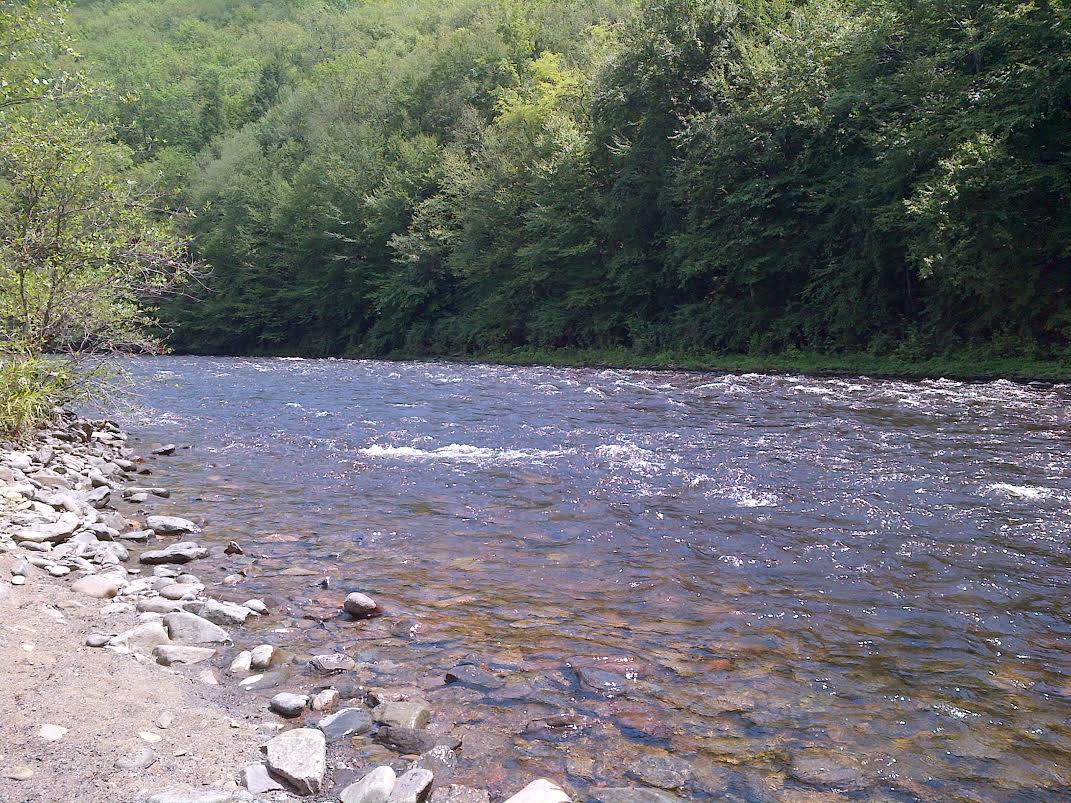 Lehigh River near Glen Onoko, near Jim Thorpe, Pennsylvania. This river is the site of many tubing, kayaking, and canoeing operations.